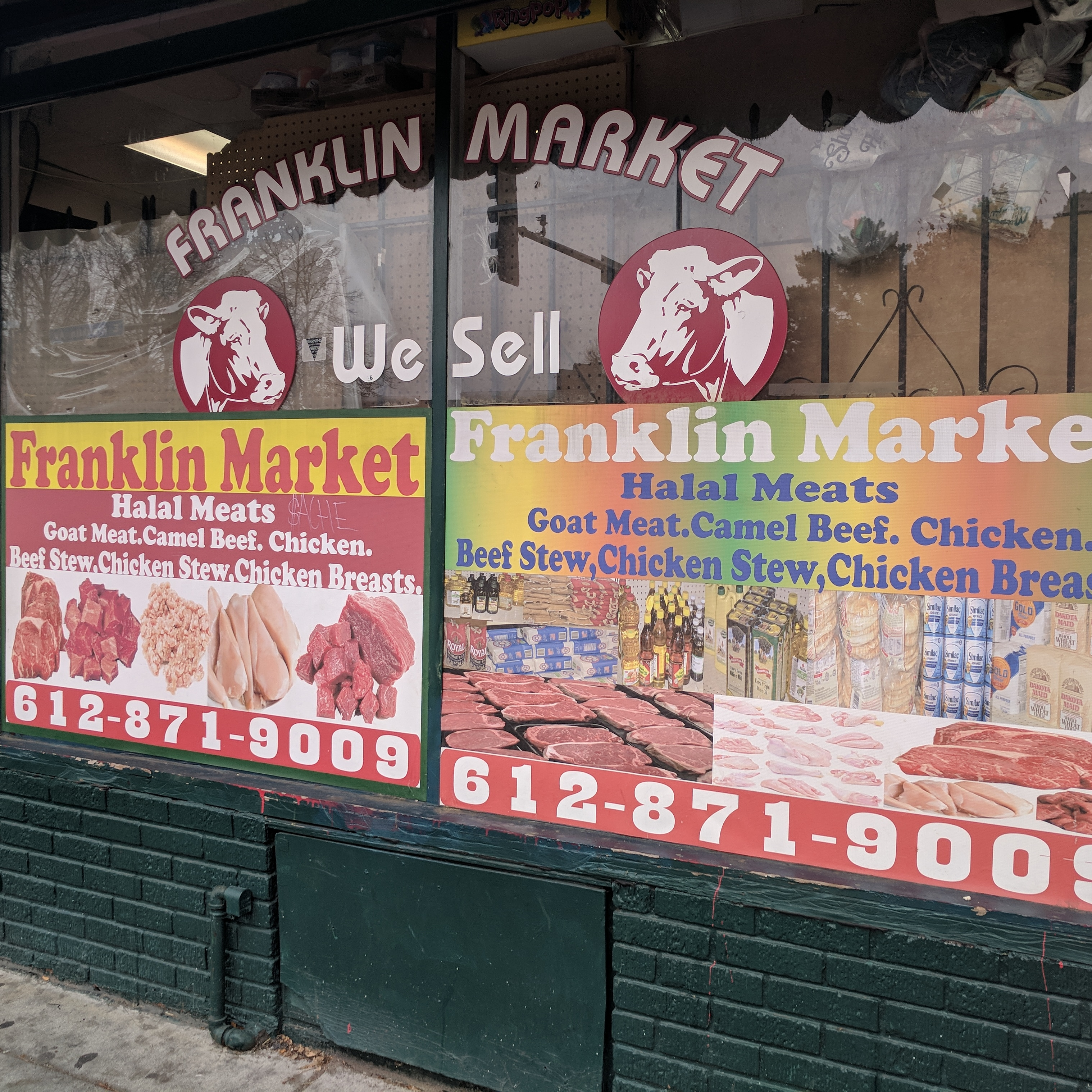 A Halal Market in Minneapolis, Minnesota (USA). Located on Franklin Avenue in southern Minneapolis.